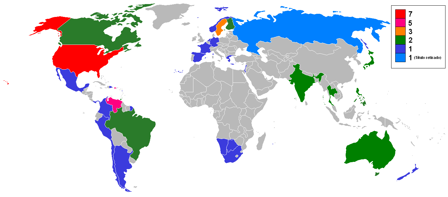 A locator map of Miss Universe-winning countries (showing number of times contestants from each country have won) created by User:Joey80, from wikipedia.